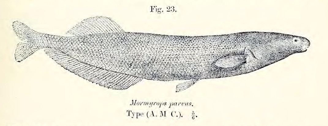 Mormyrops parvus Boulenger, 1899